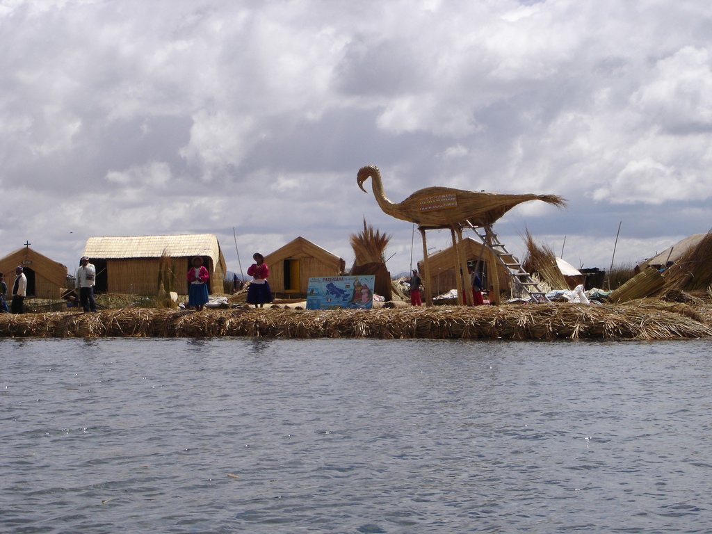 Islands of Uros, Titicaca Lake